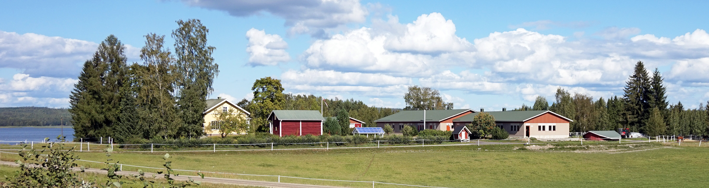 Oittila, Jyväskylä.